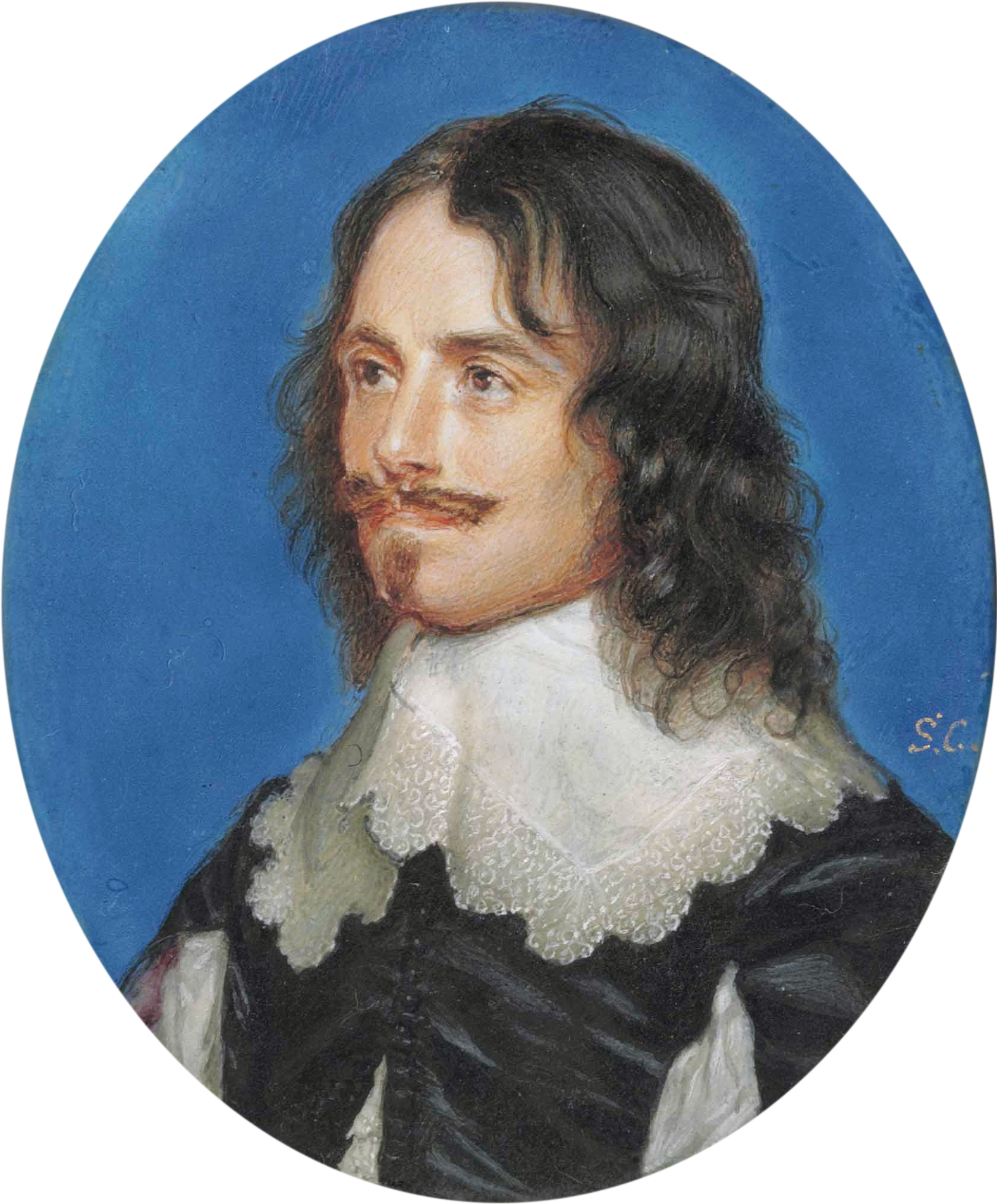 William Scott, later Lord Clerkington (d 1656) on vellum 4.3 cm high signed c.r.: S.C.